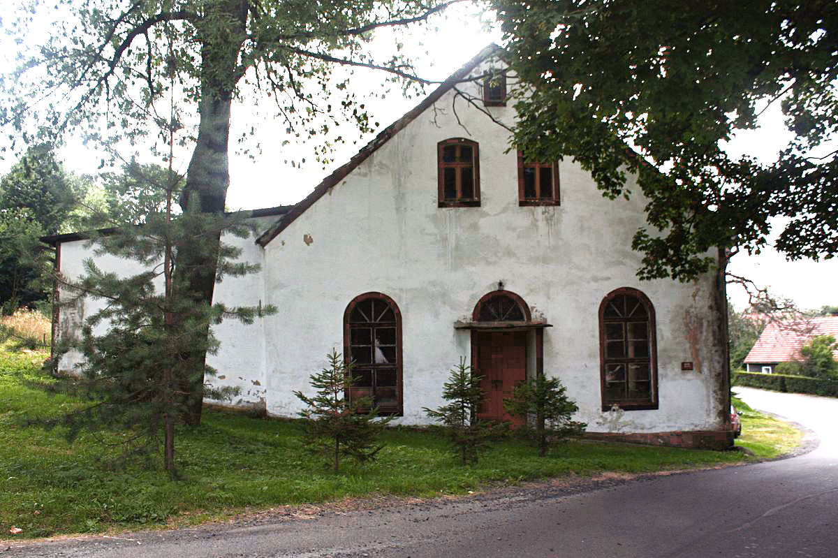 This photo of Lower Silesian Voivodeship was taken during Wikiexpedition 2013 set up by Wikimedia Polska Association. You can see all photographs in category Wikiekspedycja 2013.